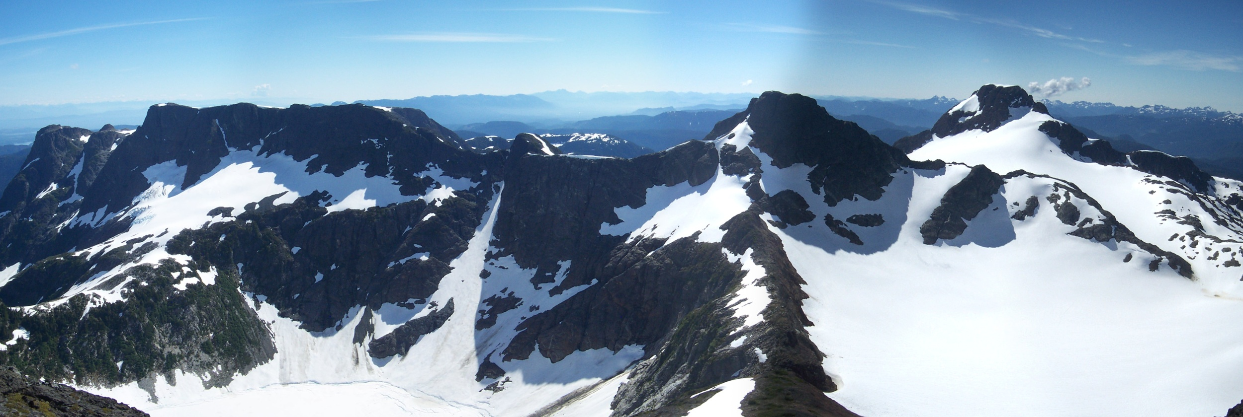 Comox Glacier summit (left), Argus Mountain (center), and the Red Pillar (right), viewed from summit of Mount Harmston, located to the North.